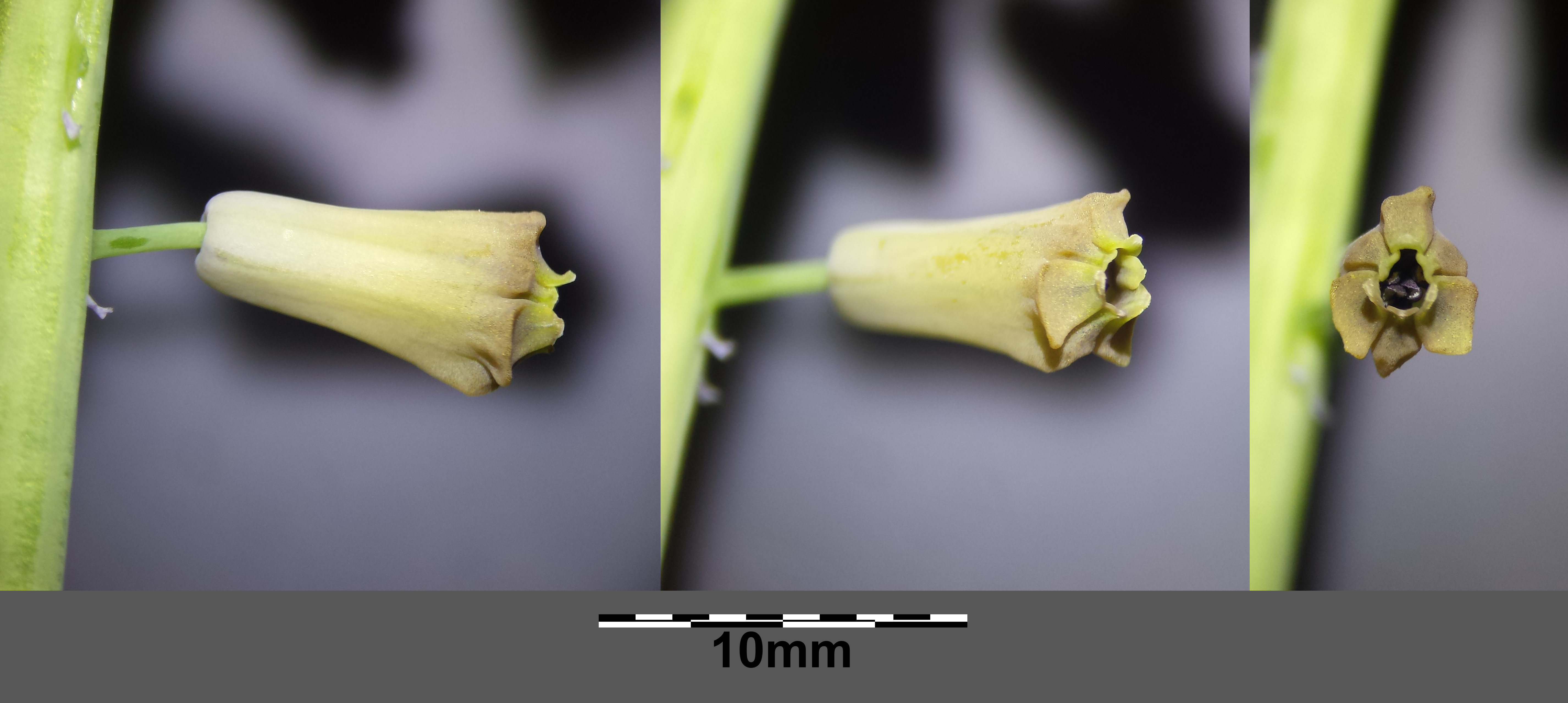 Fertile flower Taxonym: Muscari comosum ss Fischer et al. EfÖLS 2008 ISBN 978-3-85474-187-9 Location: Waldberg next to Niederkreuzstetten, district Mistelbach, Lower Austria - ca. 250 m a.s.l. Habitat: shrubbery